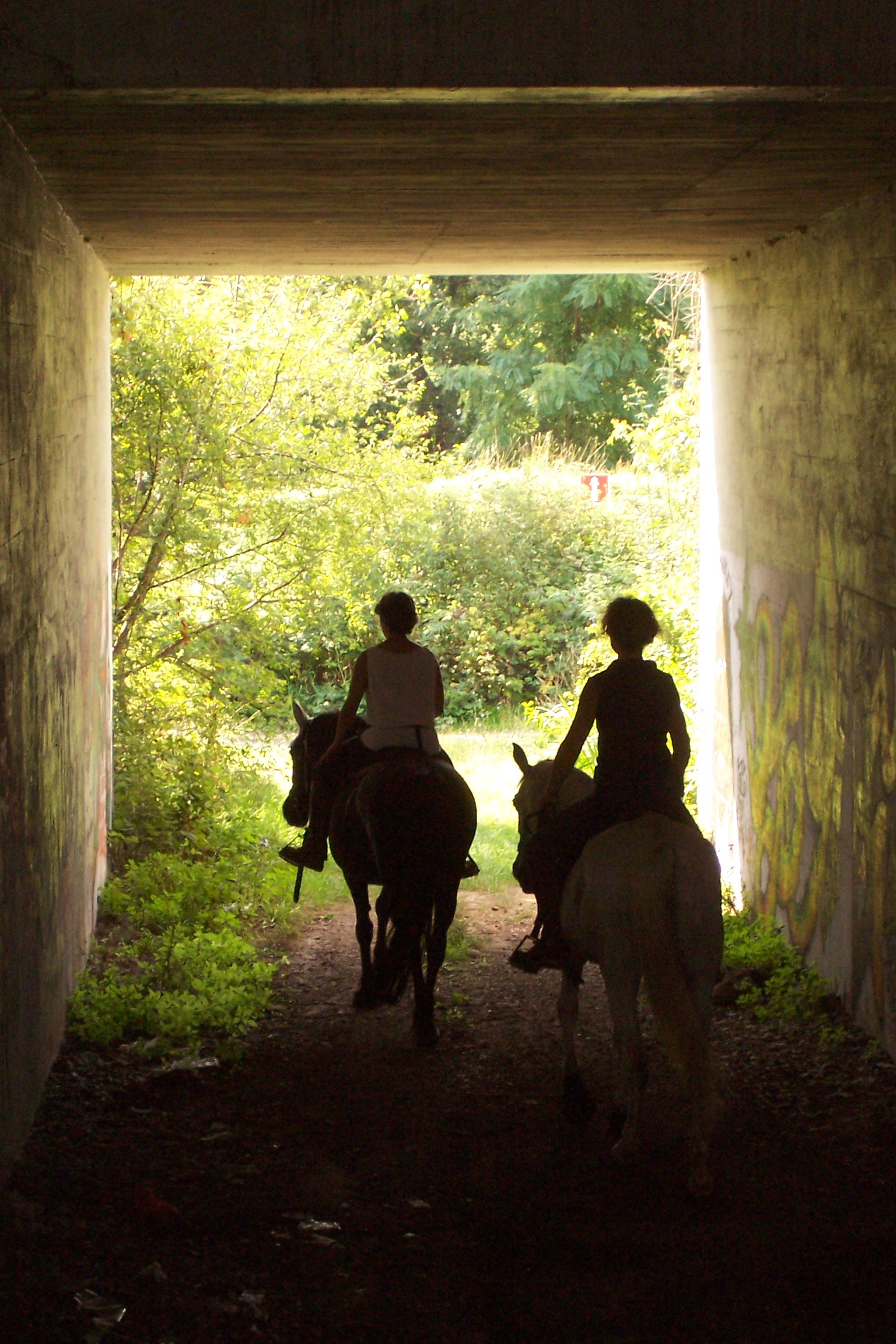 Barefoot & bitless & treeless trail riding into Monfalcone Karst (Italy)